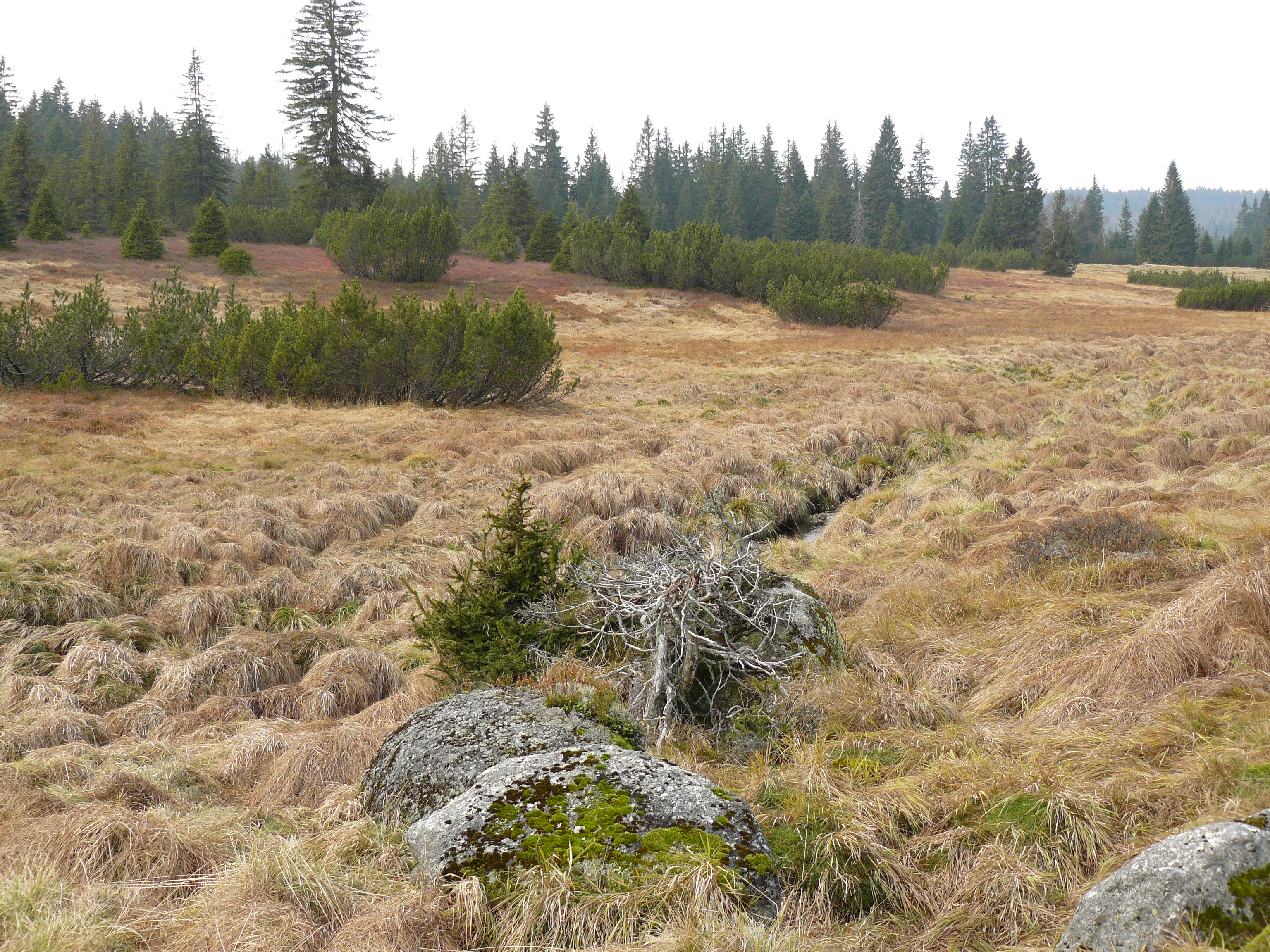 moor